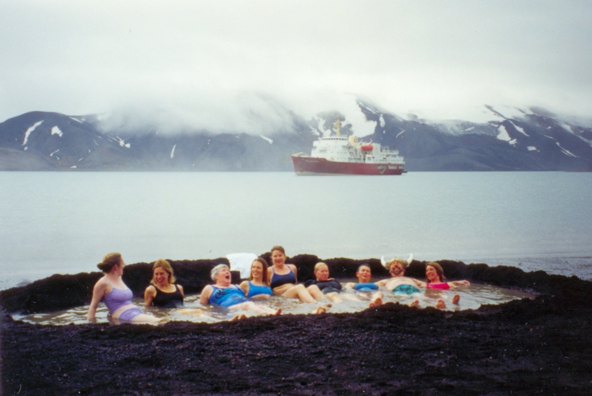 Picture published by the author Lyubomir Ivanov.